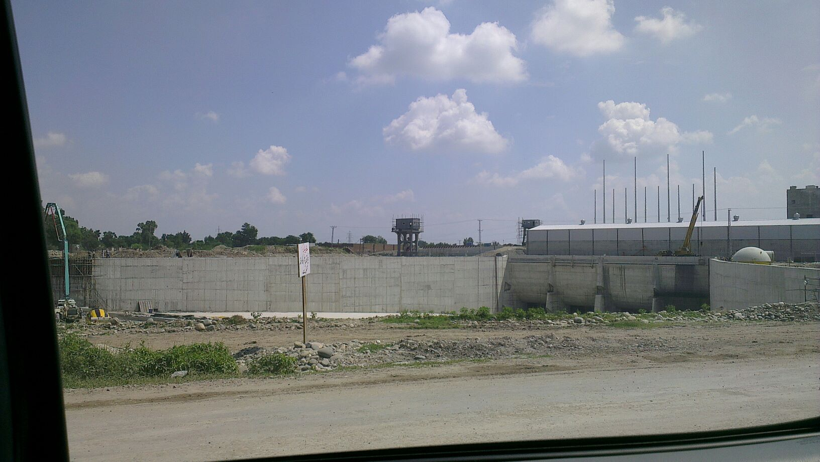 New Bong Escape HPP, Mirpur District, AJK, Pakistan